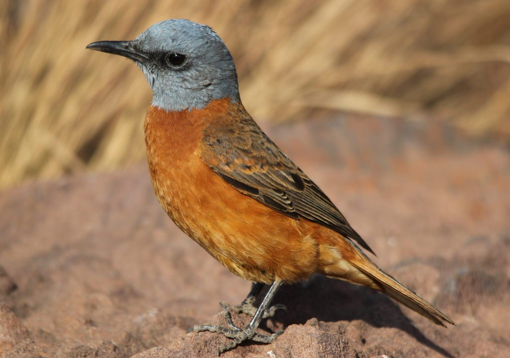 A male Cap Rock Thrush at Marakele National Park, South Africa.